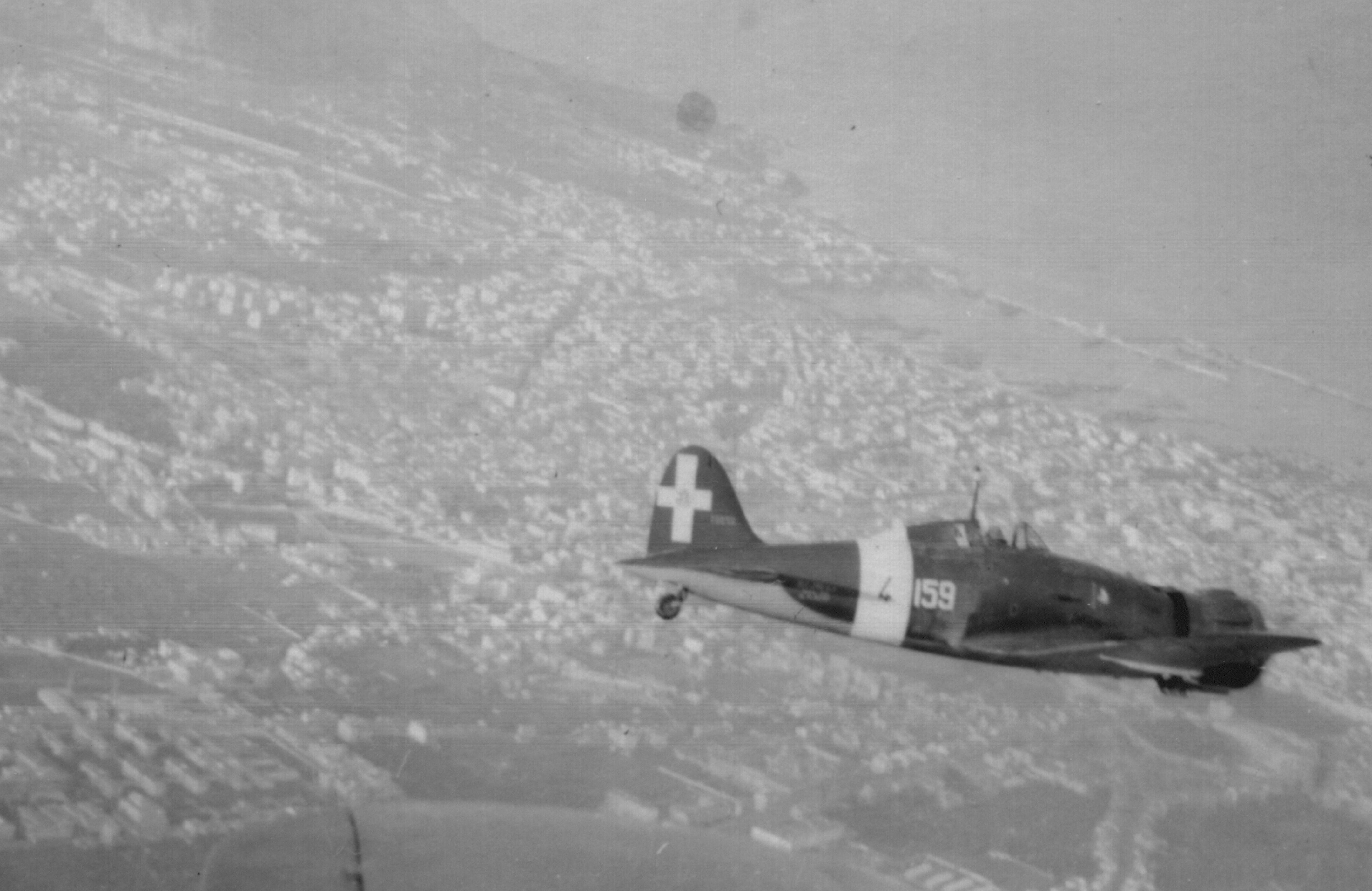 A WWII Italian fighter Macchi MC.200 Saetta. From the private archive of Riggio family.